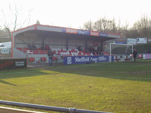 The Bright Finance Stadium, Dronfield Coach & Horses